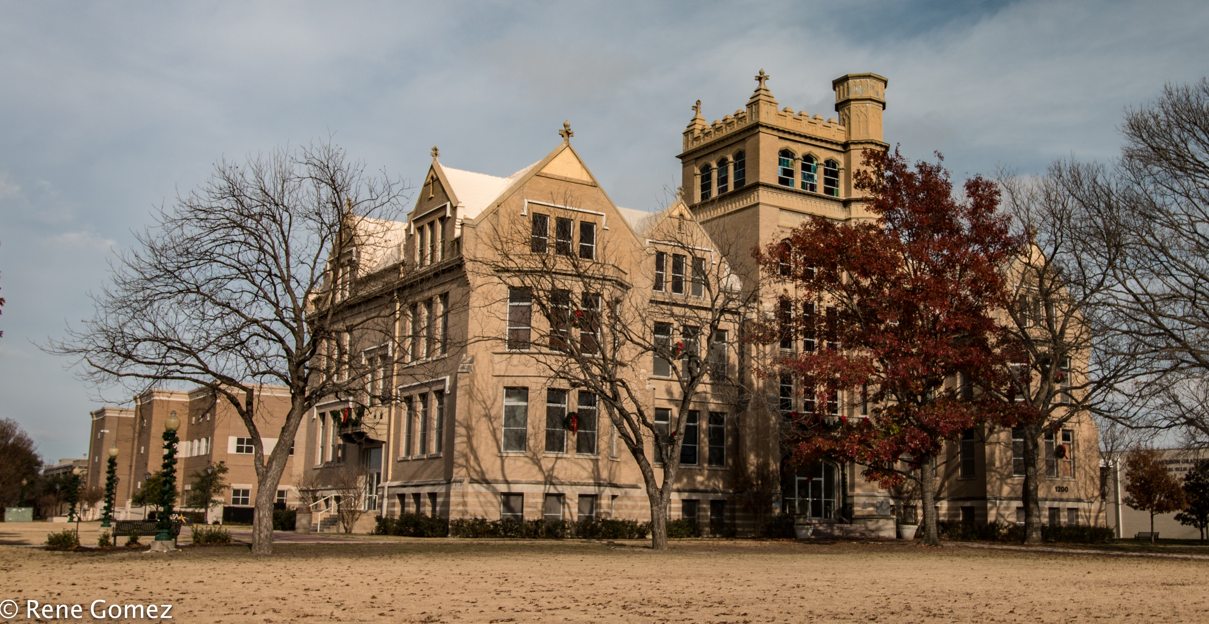 Second Trinity University Campus in Waxahachie, Texas